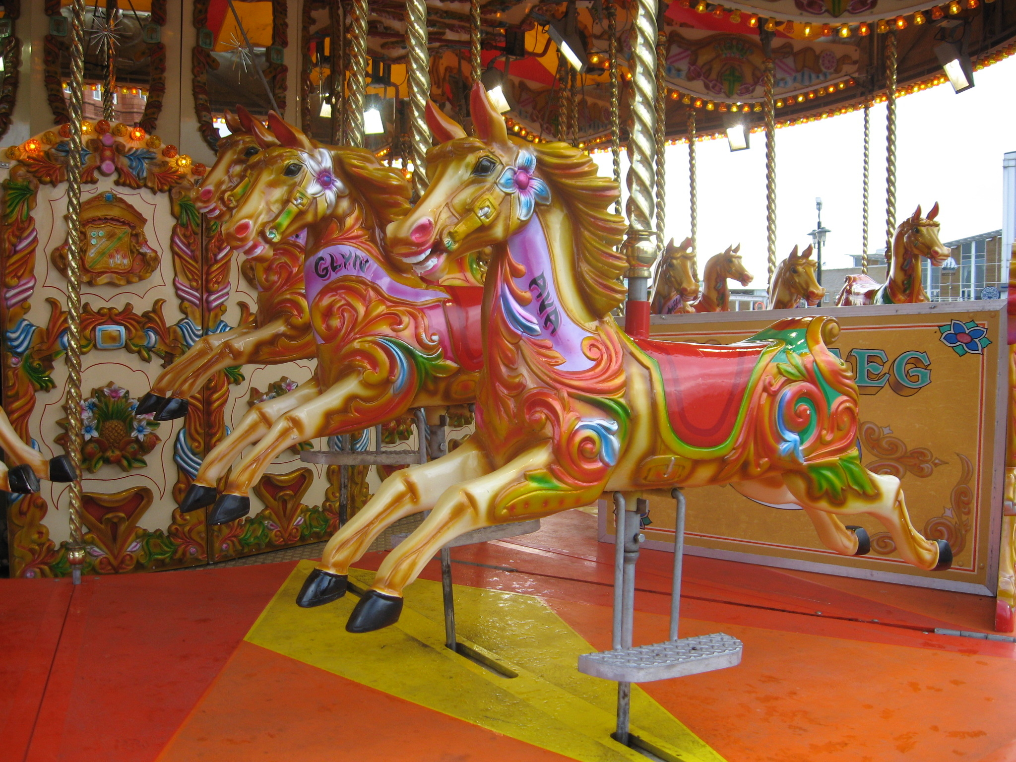 Carousel horses outside the Millennium Centre, Cardiff, Wales